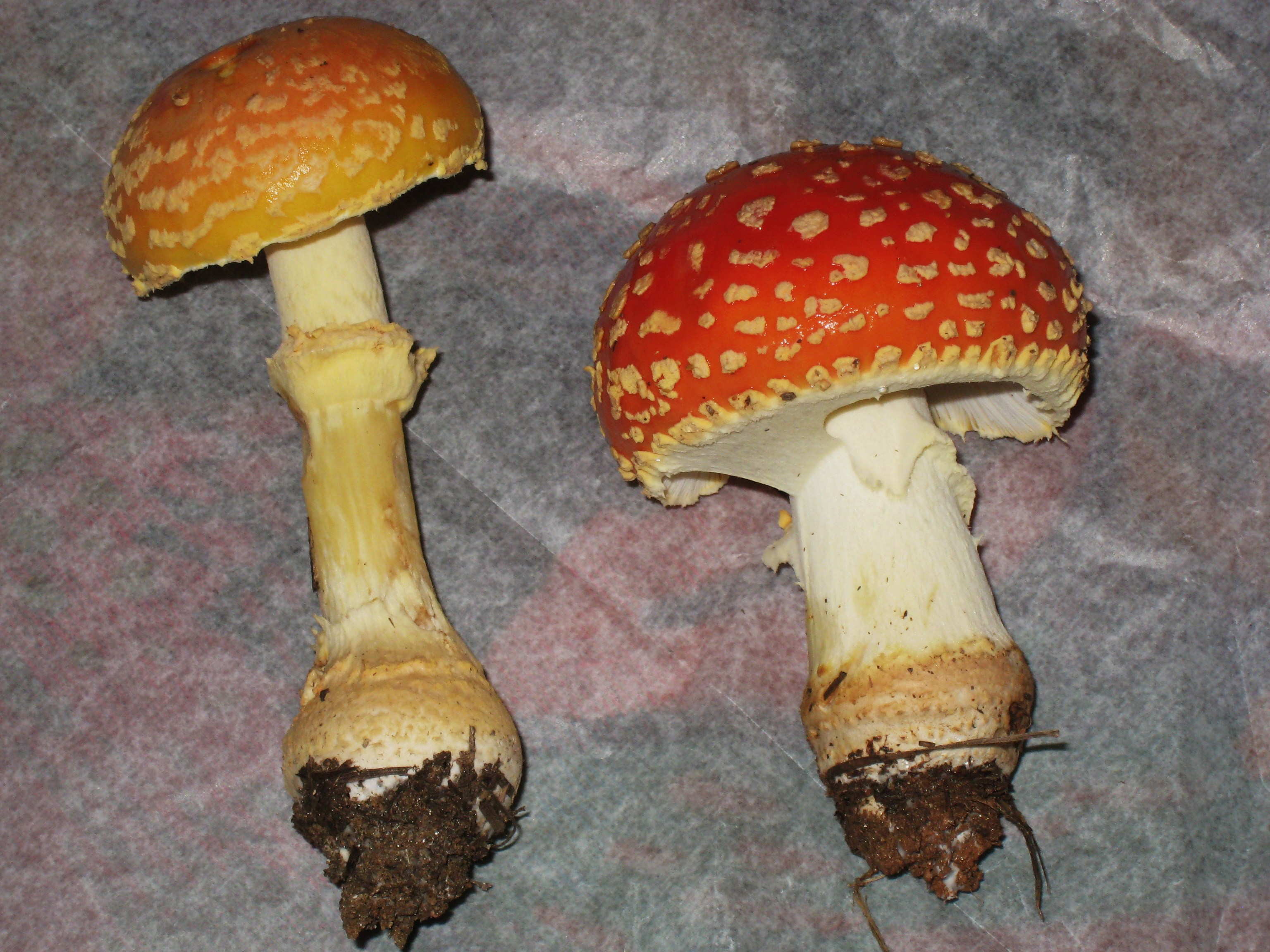 A couple of Amanita persicina specimens, showing how different they can look.